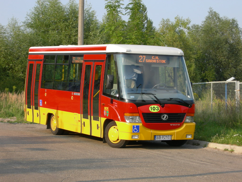 Jelcz M081MB/3 Vero bus (#103, reg. SB 92103) in Bielsko-Biała, Poland. Built 2007, MZK Bielsko-Biała operator.